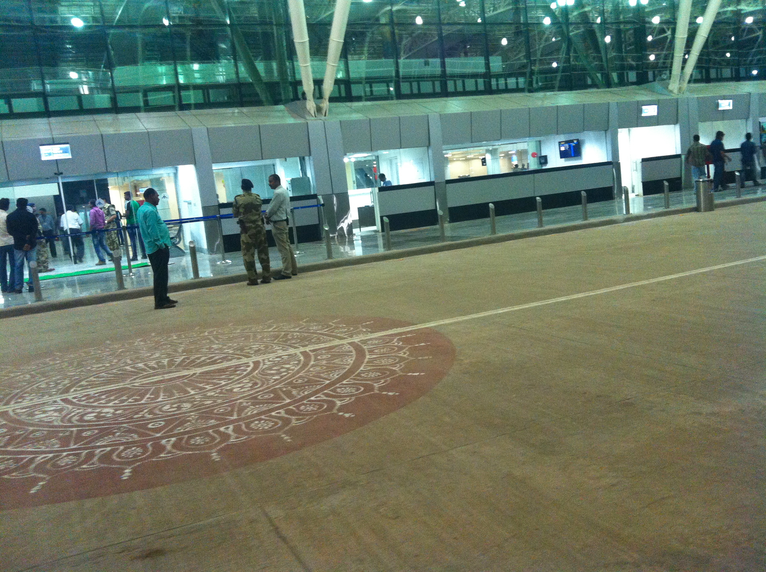 T1, Biju Patnaik Airport, Bhubaneswar, Odisha, India.